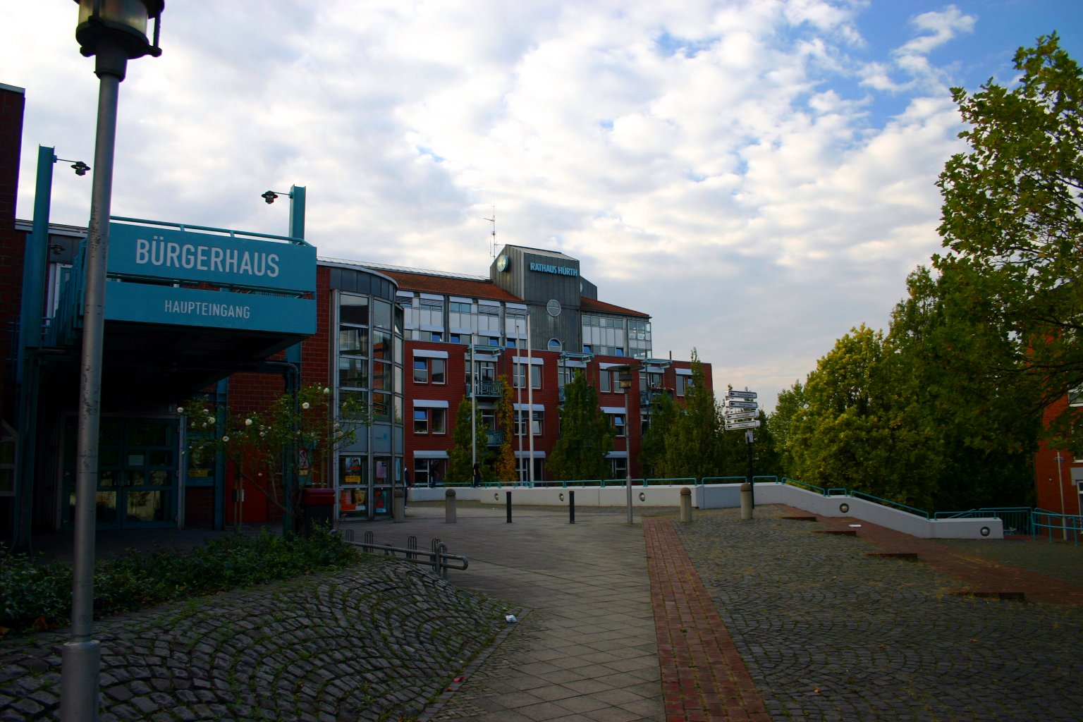 Community centre and city hall of Hürth, taken on 2005-10-02 by myself.